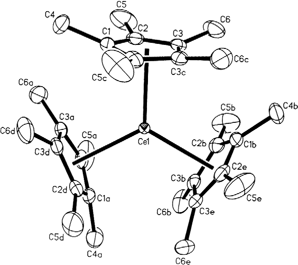 cerium complex